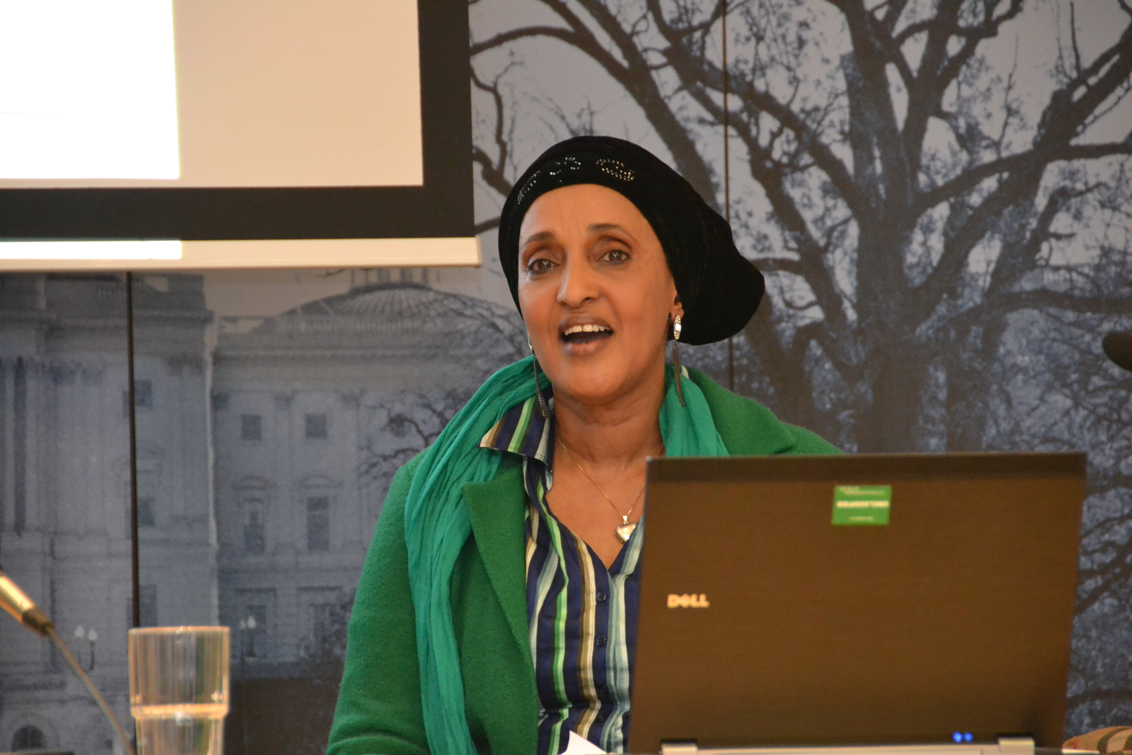 Somali activist Hanan Ibrahim, founder of the Somali Family Support Group.